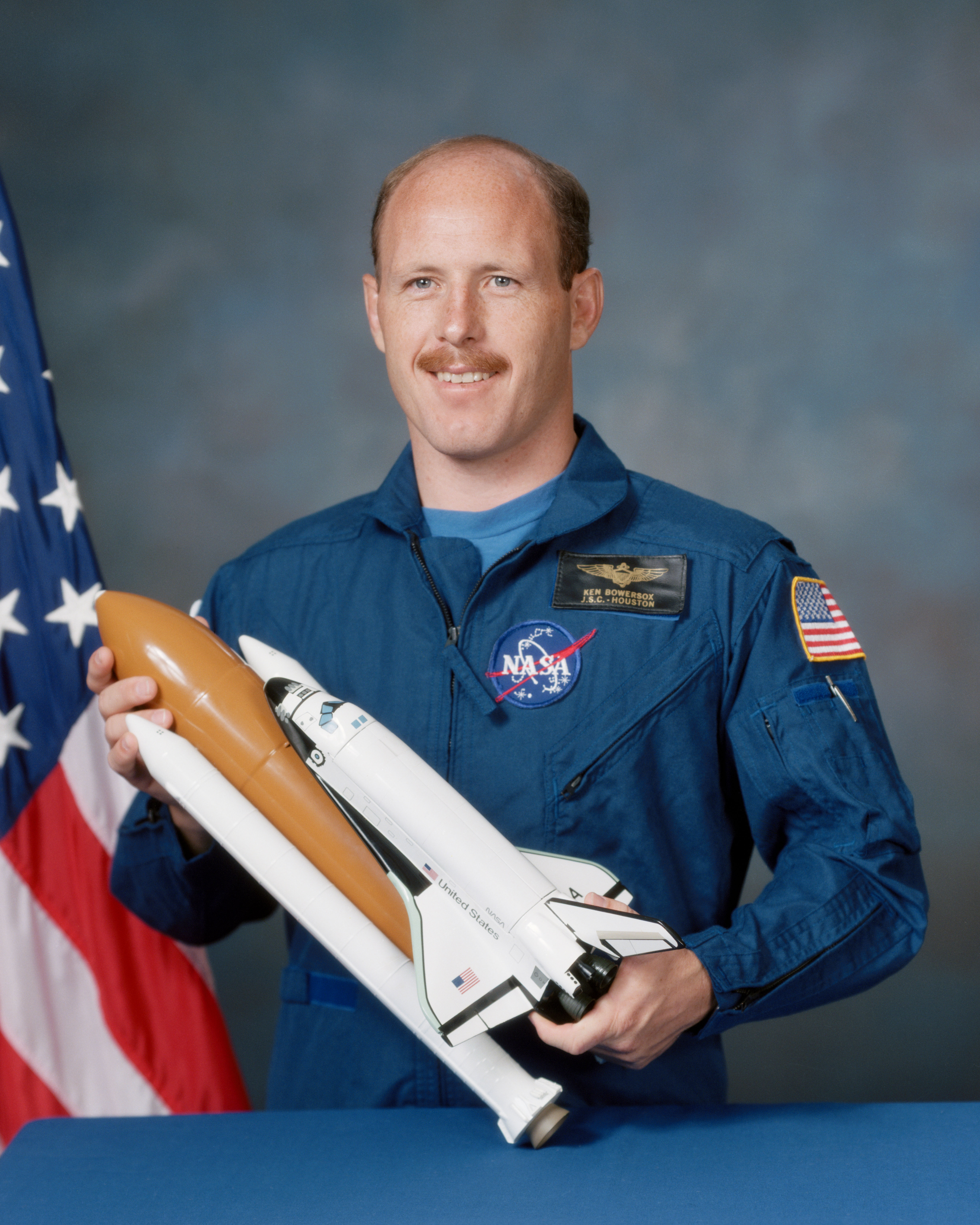 Kenneth Duane "Sox" Bowersox